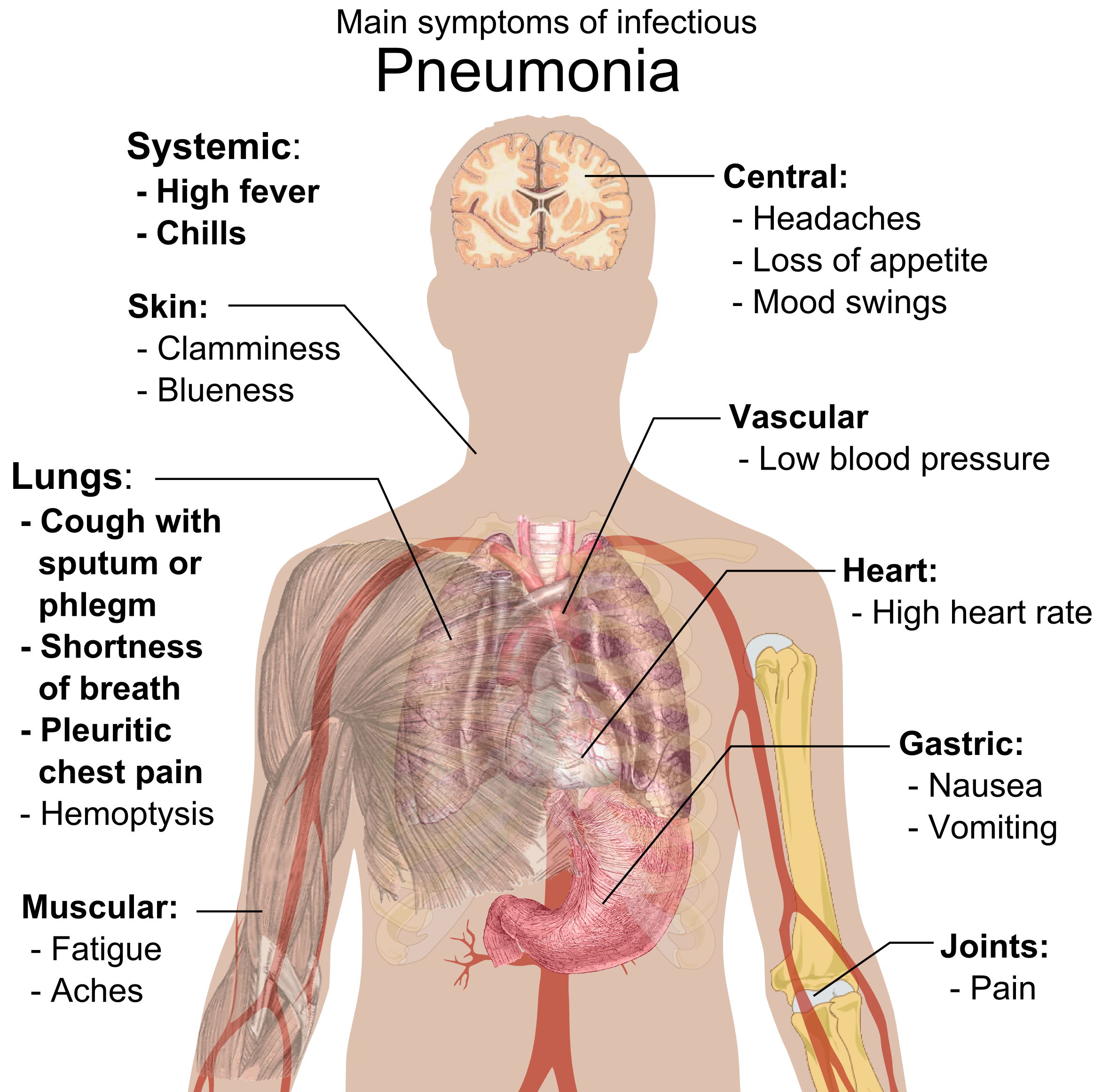 Main symptoms of infectious pneumonia. Sources are found in main article: Wikipedia:Pneumonia#Signs_and_symptoms. To discuss image, please see Template_talk:Human body diagrams